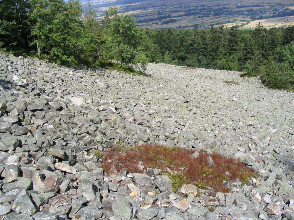 Scree-covered slope in Świętokrzyskie Mountains